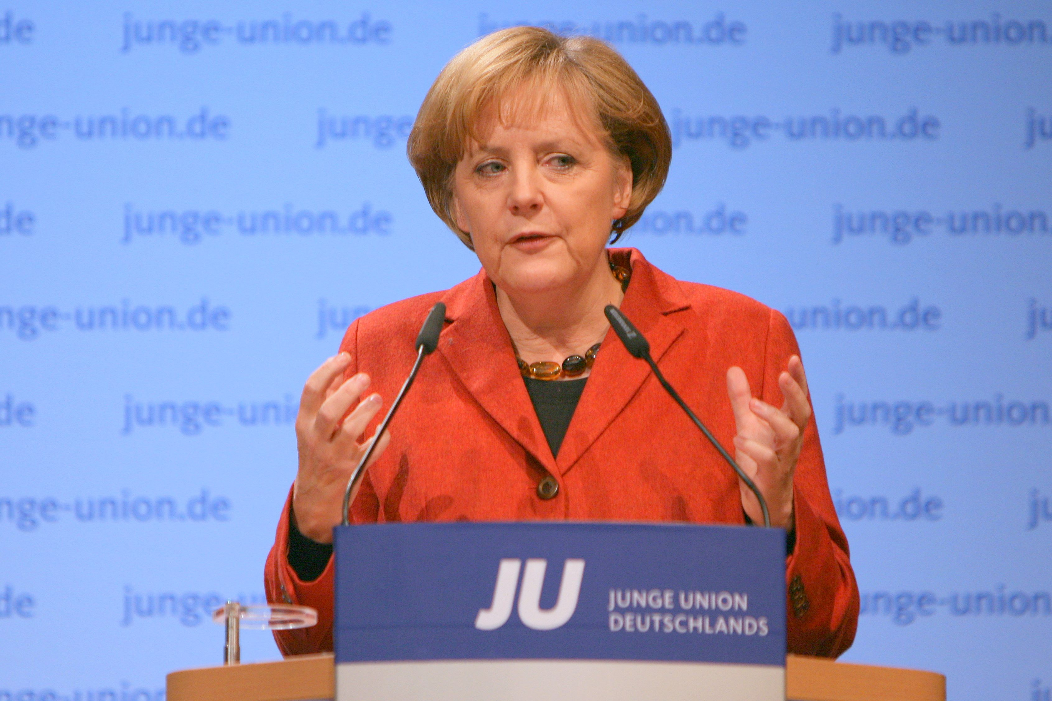 German Chancelor Dr. Angela Merkel